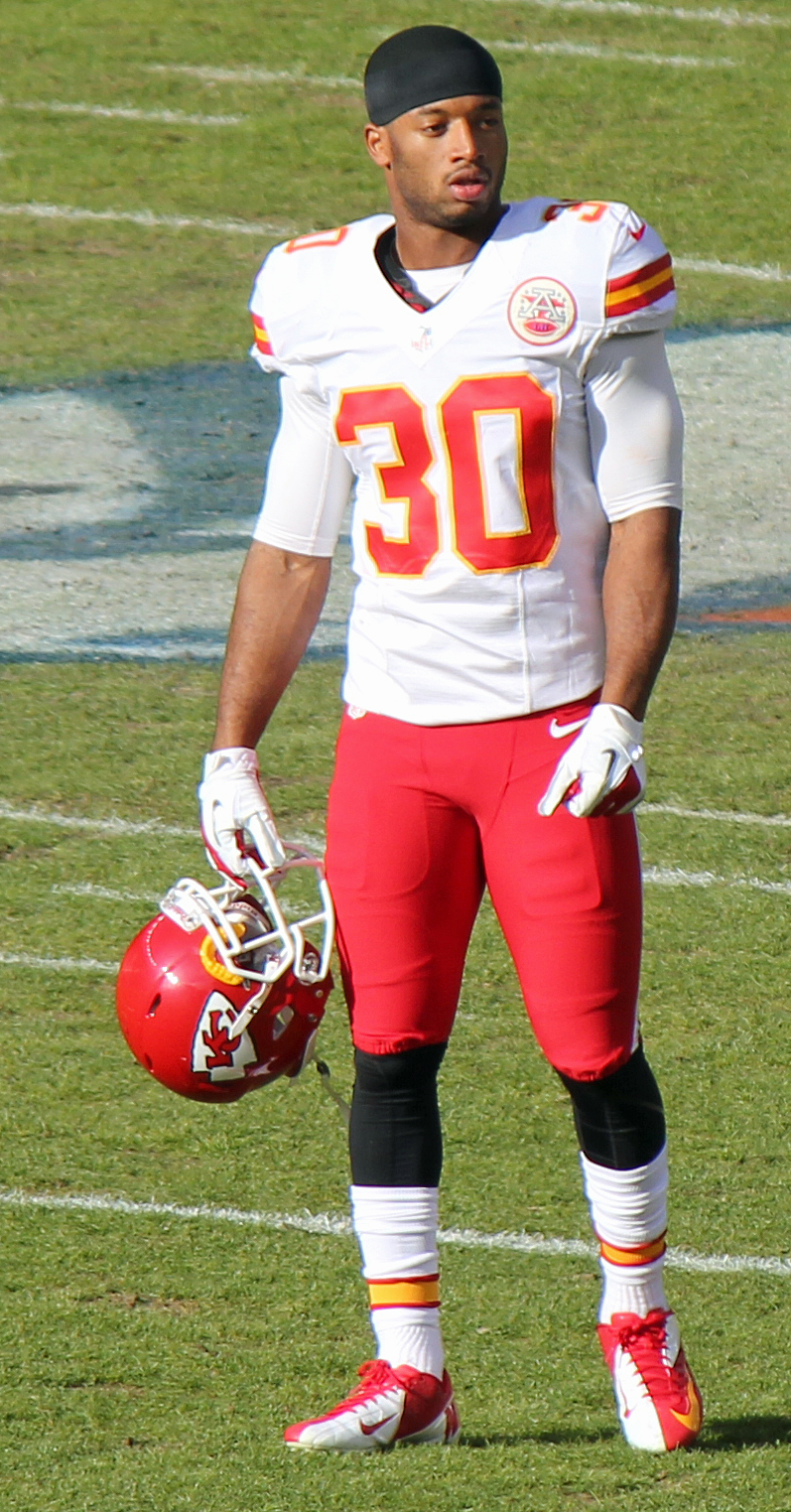 Jalil Brown, a player on the National Football League.